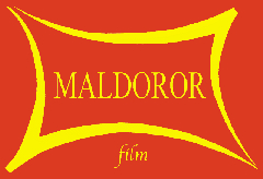 Logo of the production company Maldoror Film, founded and directed by Kadour Naimi in Rome (Italy) from 1986 to 2009.